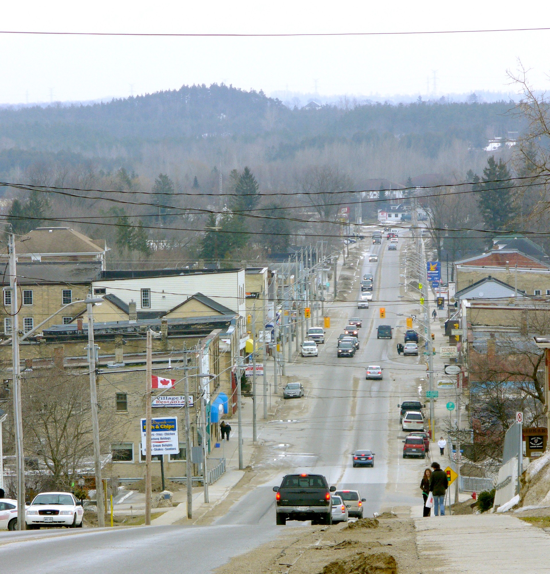 Downtown Durham, ON, as viewed from the north atop the hill by the corner of Garafraxa St. and Chester St.